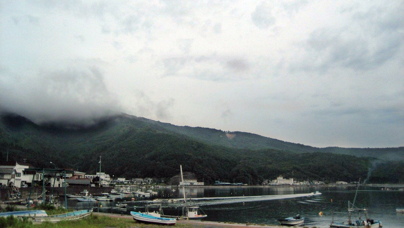 Ogatsu village and Ogatsu bay